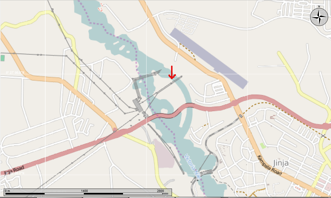 Open Street Map from the Marble program showing the Kiira Hydroelectric Power Station, marked with a red arrow.